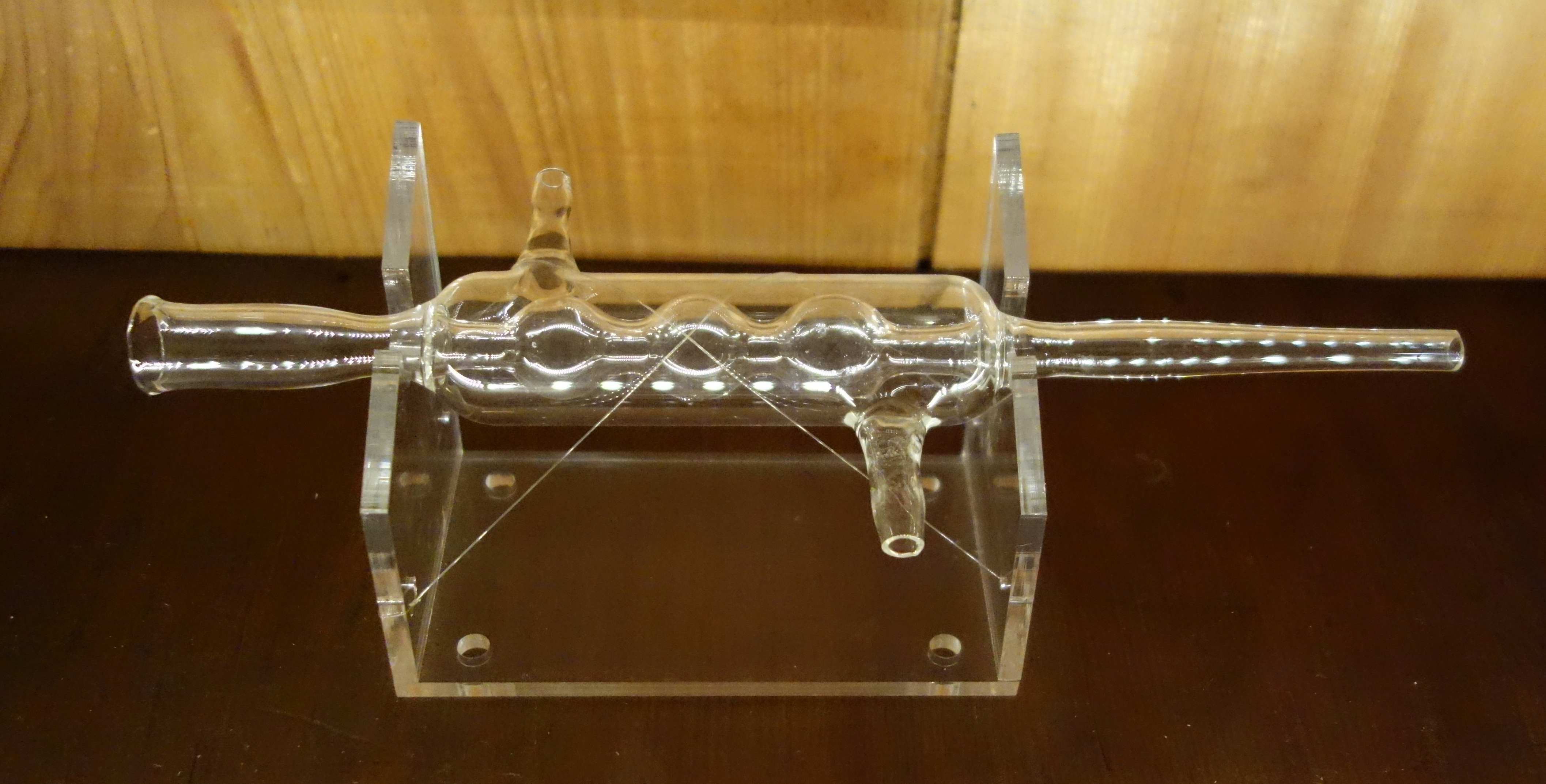 Exhibit in the NTU Heritage Hall of Physics - National Taiwan University, Taipei, Taiwan.